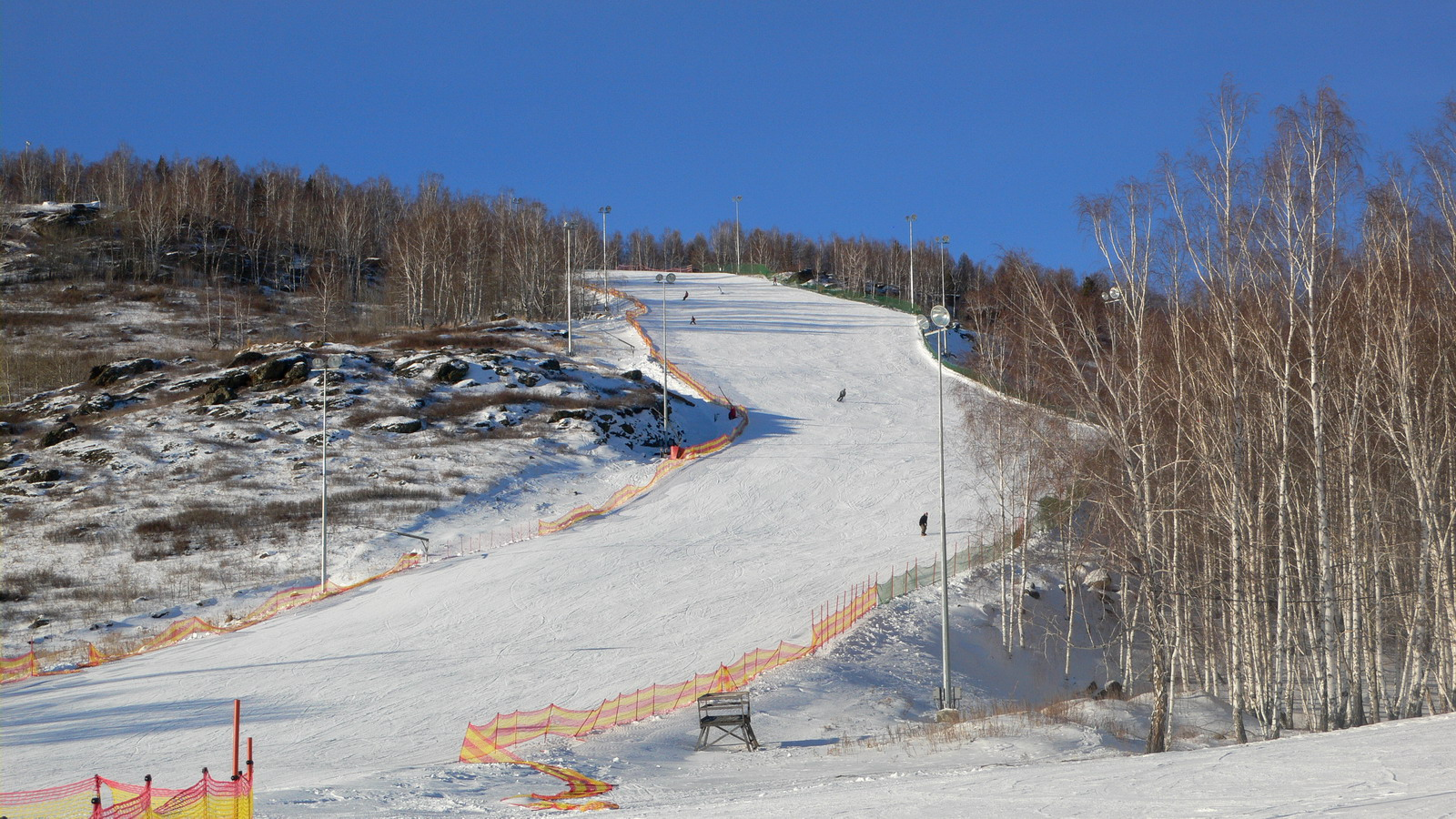 Bannoe alpine skiing center.